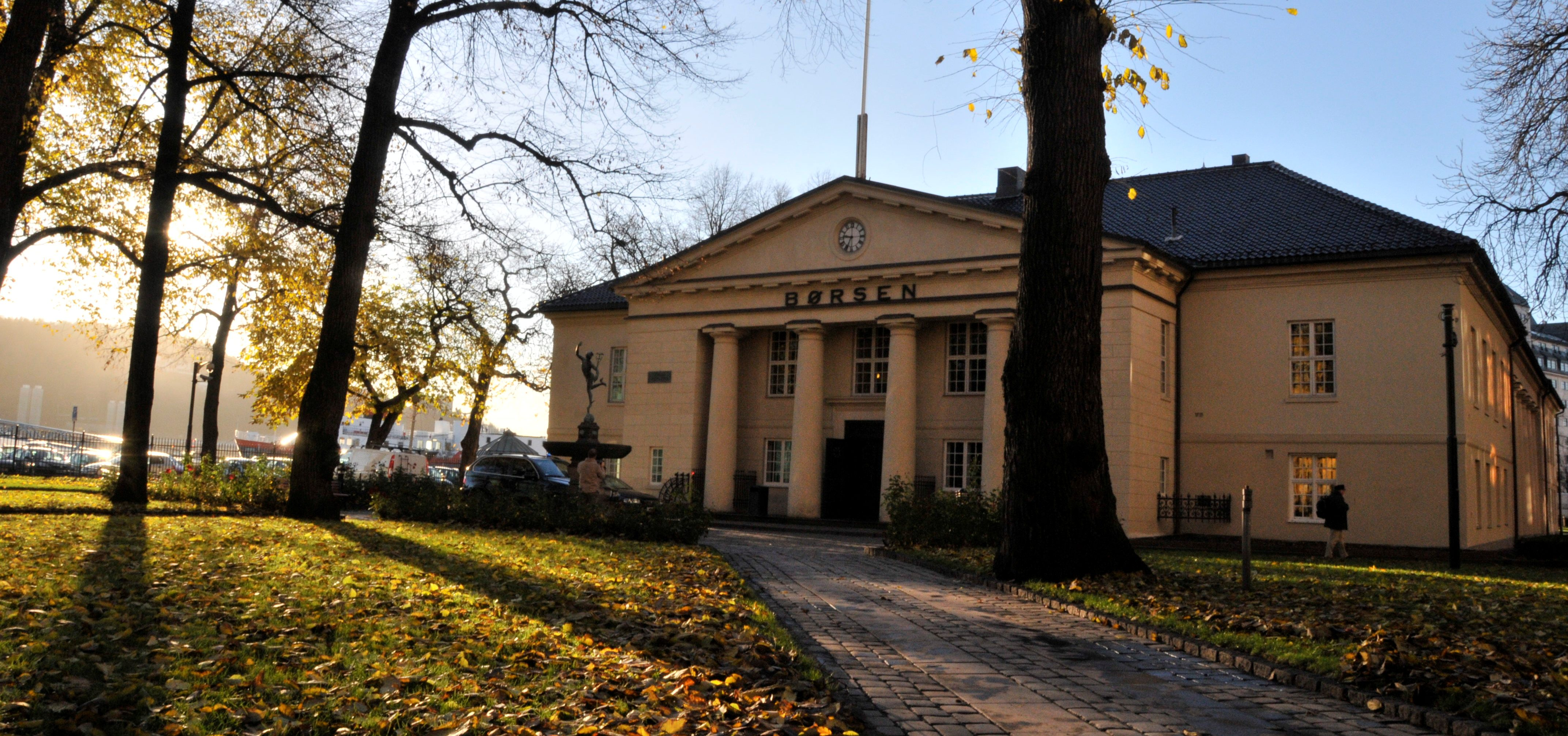 The norwegian stock exchange i the sun